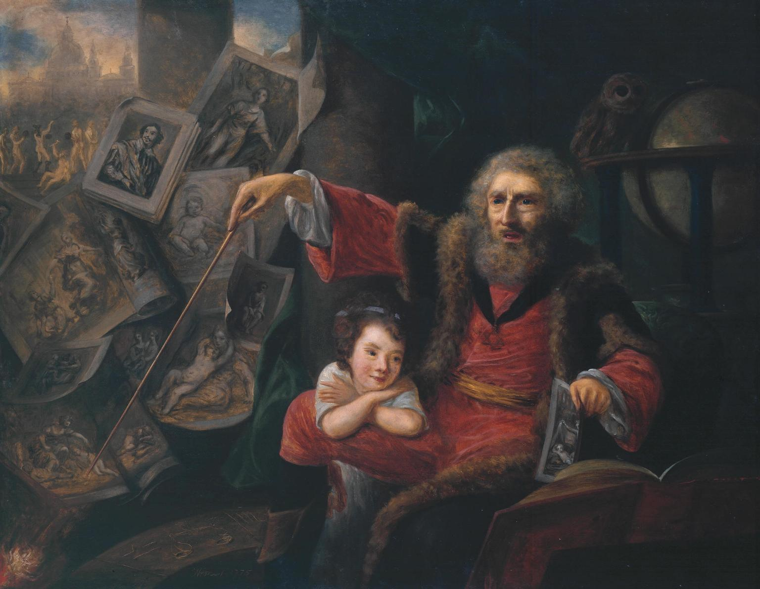 Oil sketch for Hone's satirical painting The Pictorial Conjuror, displaying the Whole Art of Optical Deception (Dublin, The National Gallery of Ireland)